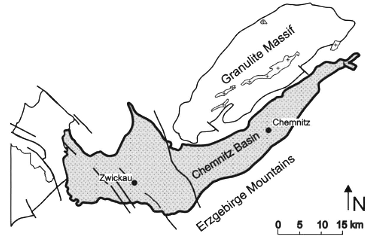 Simplified geological map of southwestern Saxony, eastern Germany. Greyish-stippled area marks the outcrop of permocarboniferous post-variscan molasse of the Chemnitz Basin (Erzgebirgsbecken or Vorerzgebirgs-Becken in German).